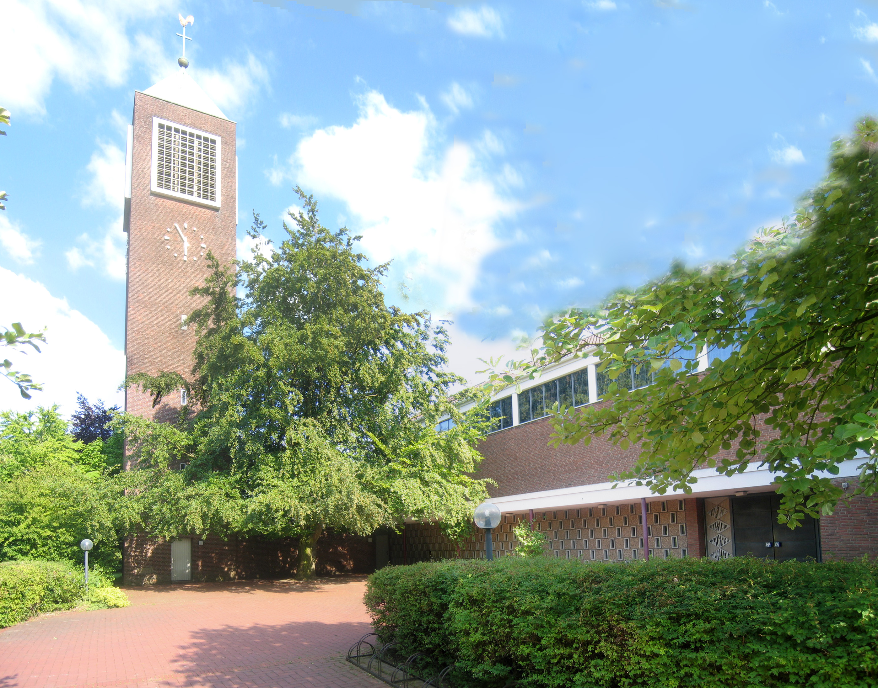 St. John church in Bünde, District of Herford, North Rhine-Westphalia, Germany.